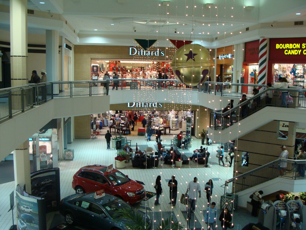 Ingram Park Mall, San Antonio. Interior view with "Dillard's" store.